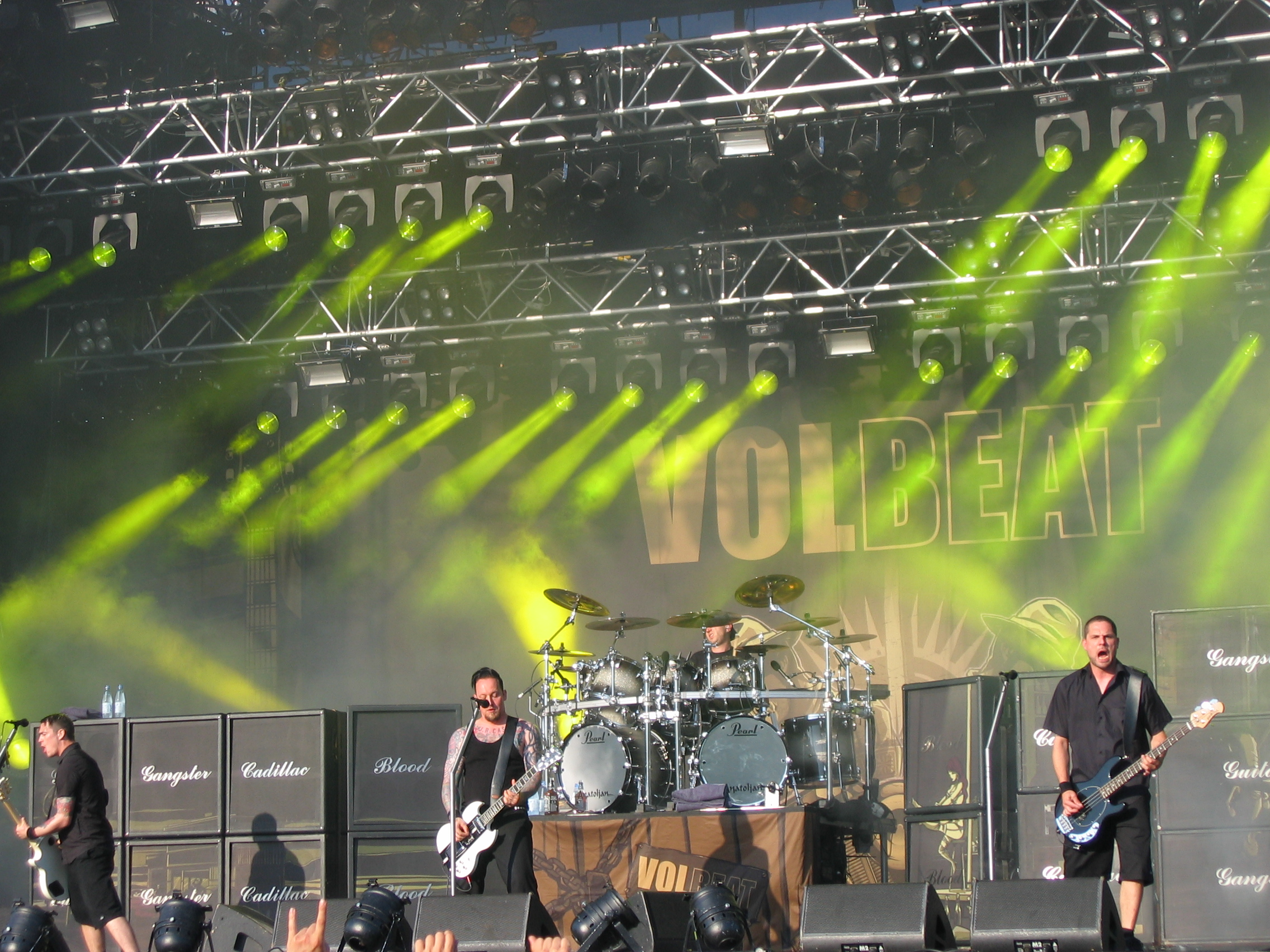 Volbeat playing as the main act in Tuska Open Air Metal Festival 2009.